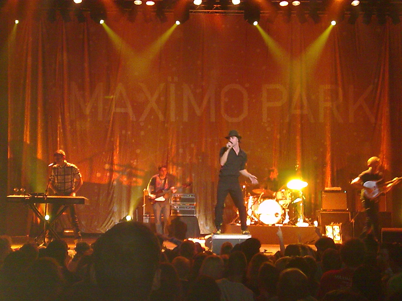 Maxïmo Park performing live at 013, Tilburg